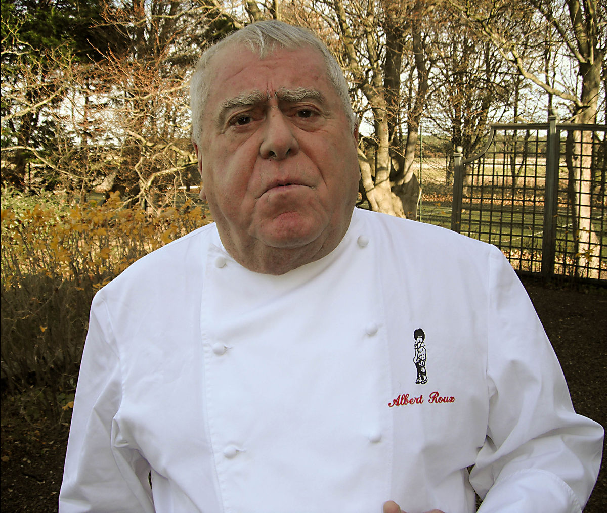 Chef Albert Roux in the gardens of the Greywalls Hotel outside Endinburgh. Photographer: Richard Vines/Bloomberg